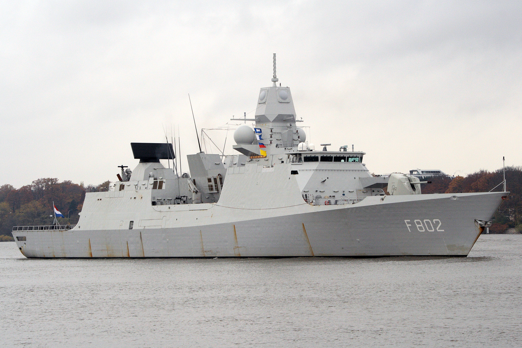 HNLMS De Zeven Provincien of the Royal Netherlands Navy in Hamburg, Germany. This frigate is is the first ship of the De Zeven Provincien class of air defence and command frigates.